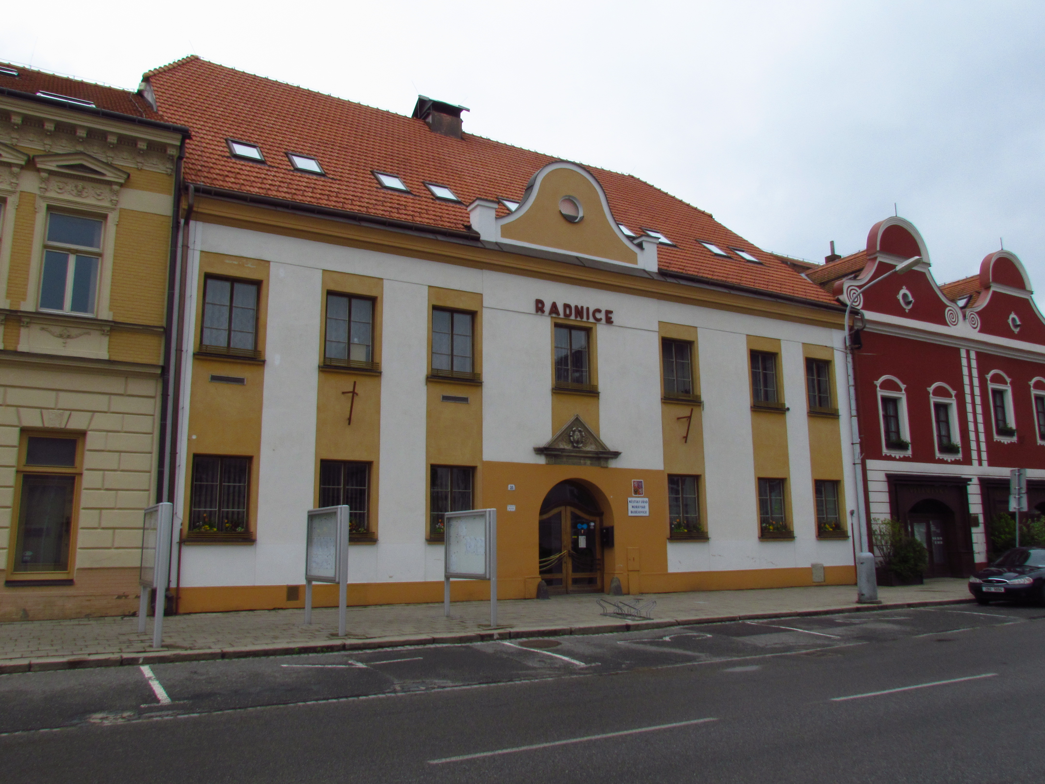 Municipal office in Moravské Budějovice, Třebíč District.